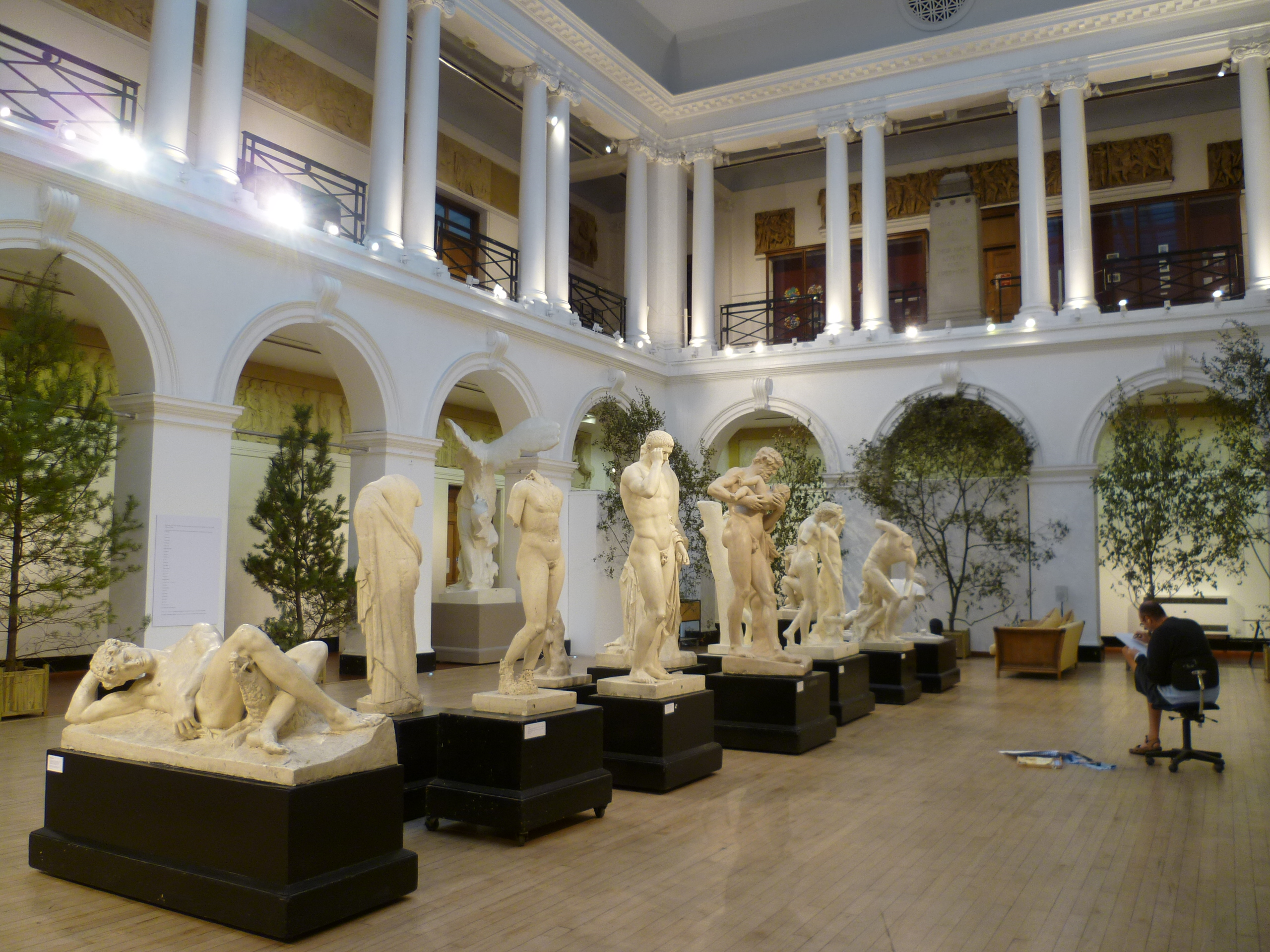 Some of the College's historic plaster casts of Antique, Gothic and Renaissance statues. A project, supported by the Heritage Lottery Fund among others, is currently underway to research, interpret and conserve the collection which contributed to Edinburgh's past understanding of itself as the 'Athens of the North'. "The distant view of Athens from the Aegean Sea is extremely like that of Edinburgh from the Firth of Forth, though certainly the latter is considerably superior. There are several points of view on the elevated grounds near Edinburgh, from which the resemblance of the two cities is complete. From Torphin in particular, one of the low heads of the Pentlands immediately above the village of Colinton, the landscape is exactly that of the vicinity of Athens as viewed from the bottom of Mount Anchesmus. Close upon the right, Brilessus is represented by the Mound of Braid; before, in the abrupt and dark mass of the Castle, rises the Acropolis; the hill of Lycabettus, joined to that of the Areopagus, appears in the Calton; in the Firth of Forth we behold the Aegean Sea; in Inchkeith, Aegina; and the hills of Peloponessus are precisely those of the opposite coast of Fife. Nor is the resemblance less striking in the general characteristics of the scene; for, although we cannot exclaim, "These are the groves of the Academy, and that the Sacred Way!" yet, as on the Attic shore, we certainly here behold "a country rich and gay, broke into hills with balmy odours crowned, and joyous vales, mountains and streams, and clustering towns, and monuments of fame, and scenes of glorious deeds, in little bounds." It is, indeed, most remarkable and astonishing that two cities, placed at such a distance from each other, and so different in every political and artificial circumstance, should naturally be so alike." -- Hugh William Williams, landscape painter, Travels in Italy, Greece and the Ionian Islands, 1820